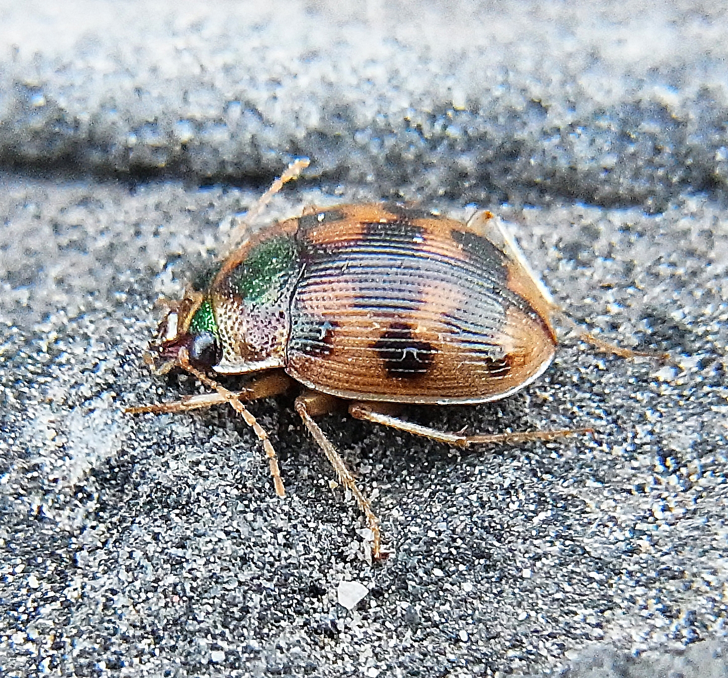 Omophron limbatum from Northern Spain, Vale de Solana east of Jaca at 2013-06-30